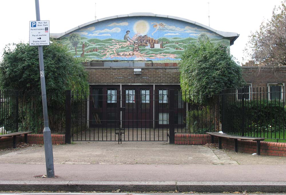 St Michael & St George, Commonwealth Avenue, London W12. Tympanum decoration (late 1980s) by Peter Peltz, working with local people